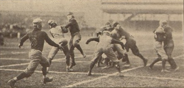 1908 Pitt versus Carnegie Tech football game action